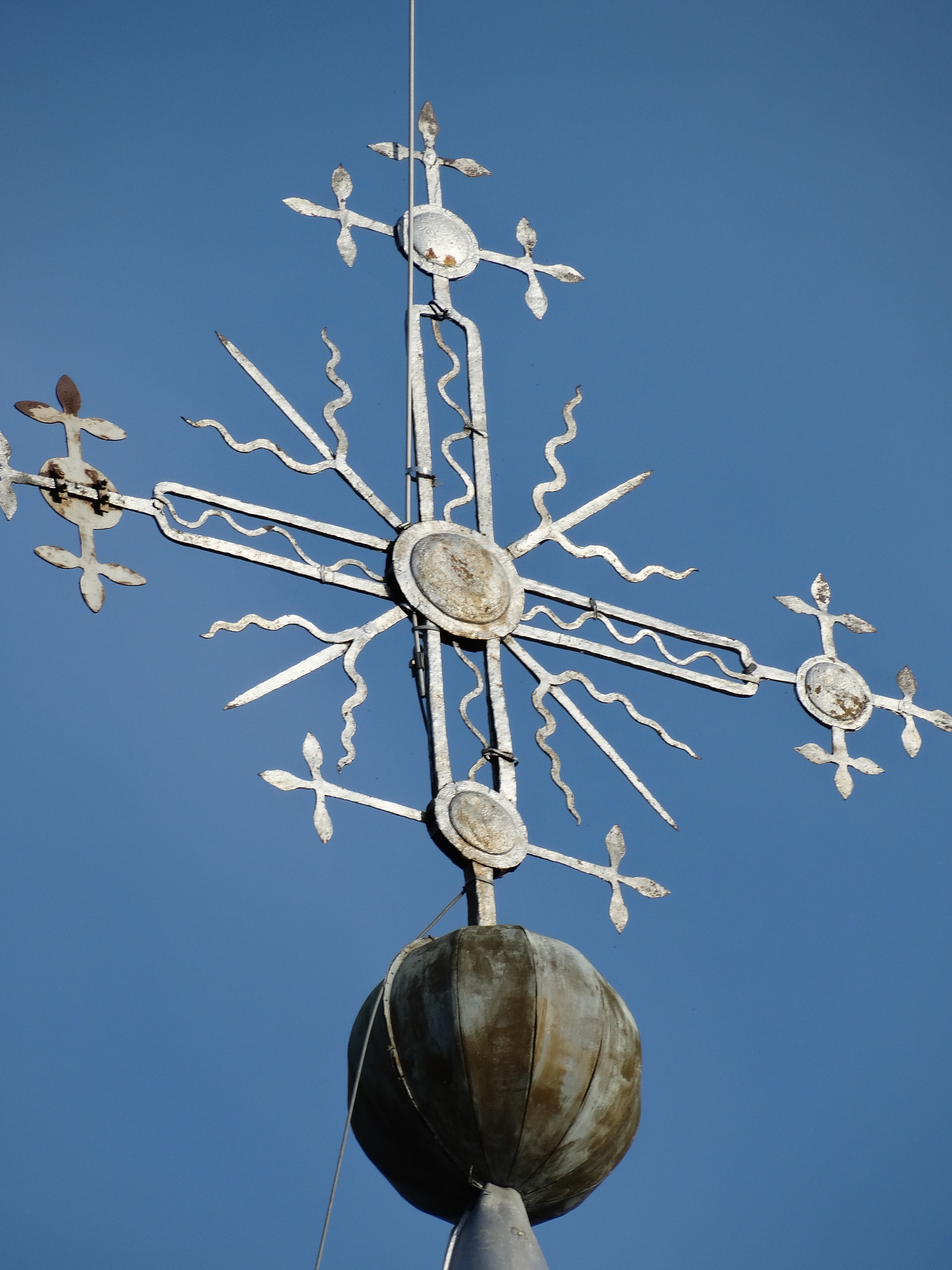 Tower cross, Holy Trinity Church, Sudervė, Lithuania